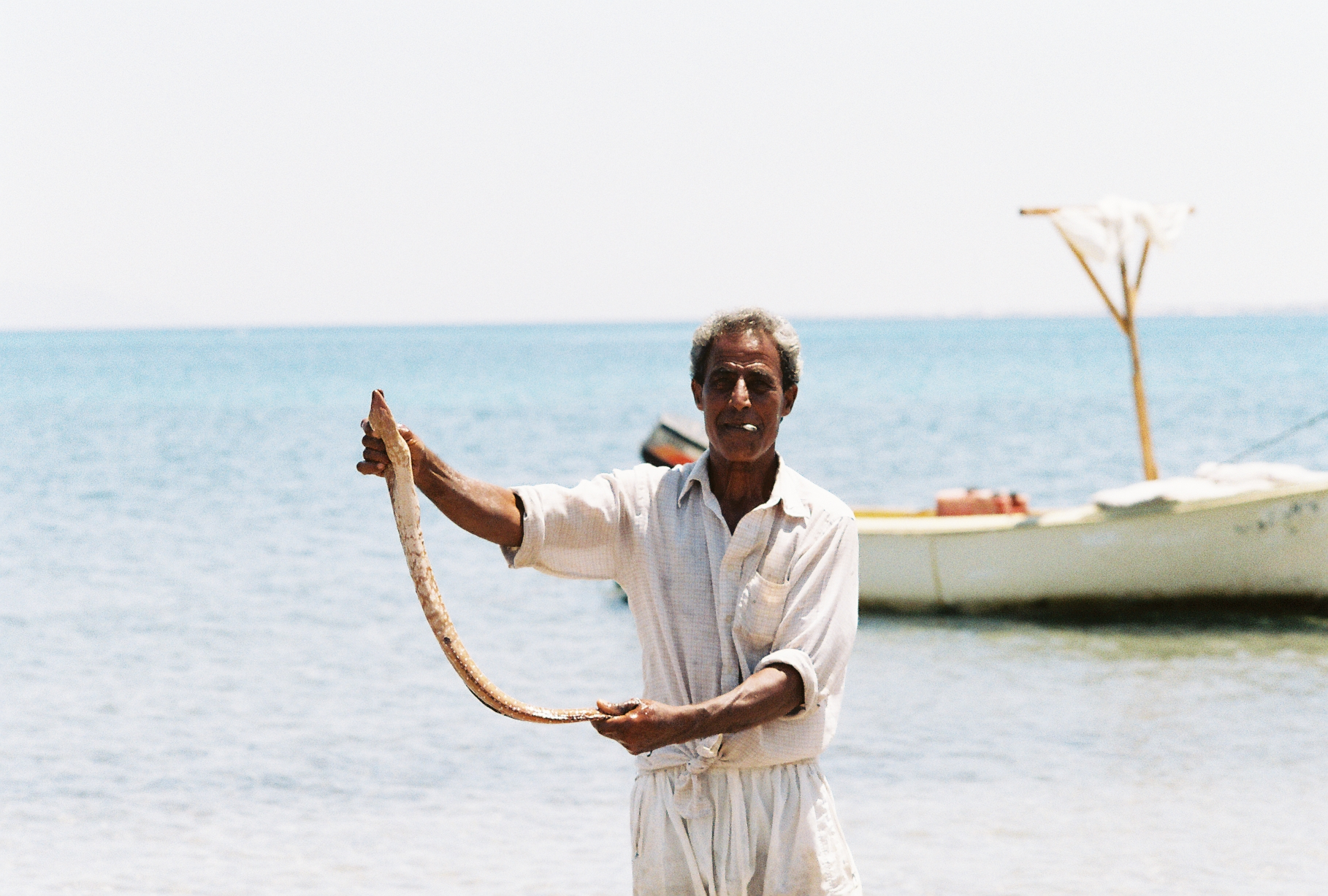 This is a photograph of an Egyptian Nomad fisherman returning from a fishing trip at the Red Sea in Sinai. It was captured on 35mm film using a "Nikon FM2 (SLR)" camera. This is an image with the theme "Africa on the Move or Transport" from: Egypt